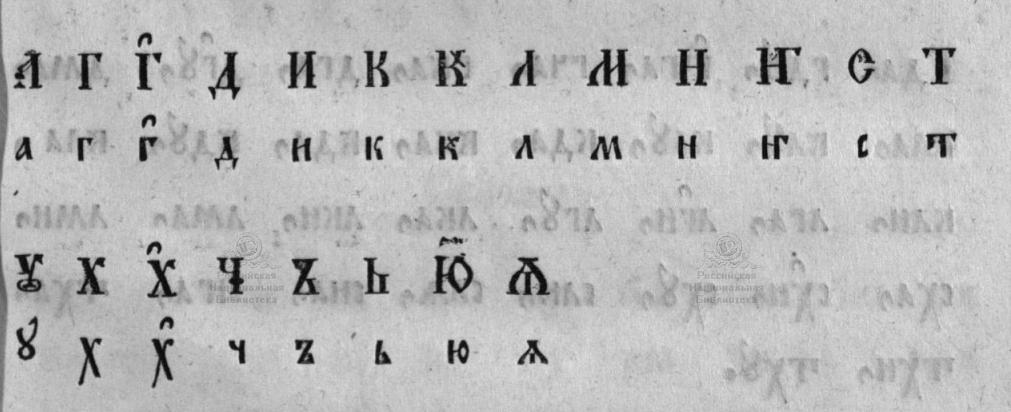 Aleut alphabet from 1846 ABC-book